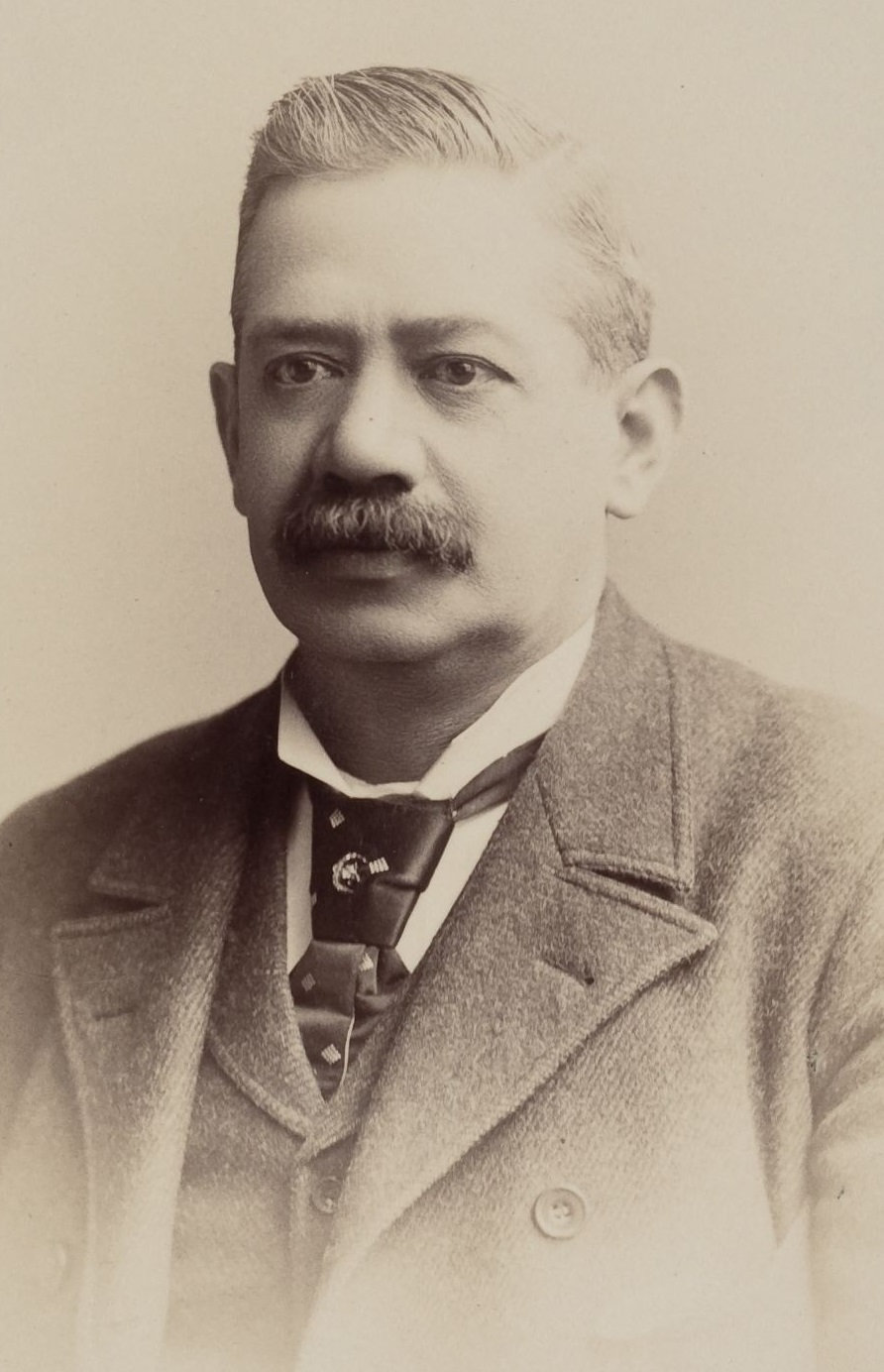 Cabinet card image of American minstrel music composer and performer Luke Schoolcraft (1847 - 1893). TCS 1.941, Harvard Theatre Collection, Harvard University